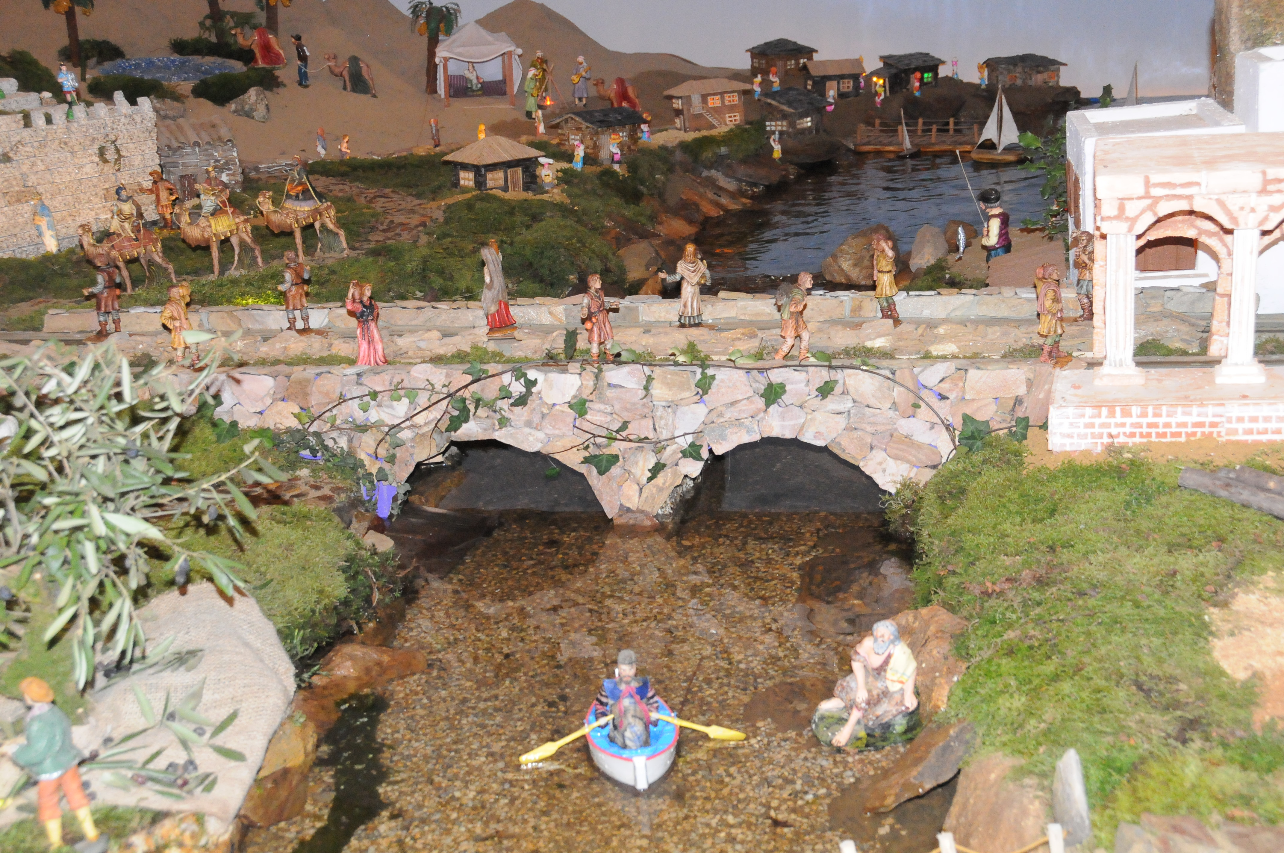 Nativity scene in Tibães Monastery, Braga, Portugal.